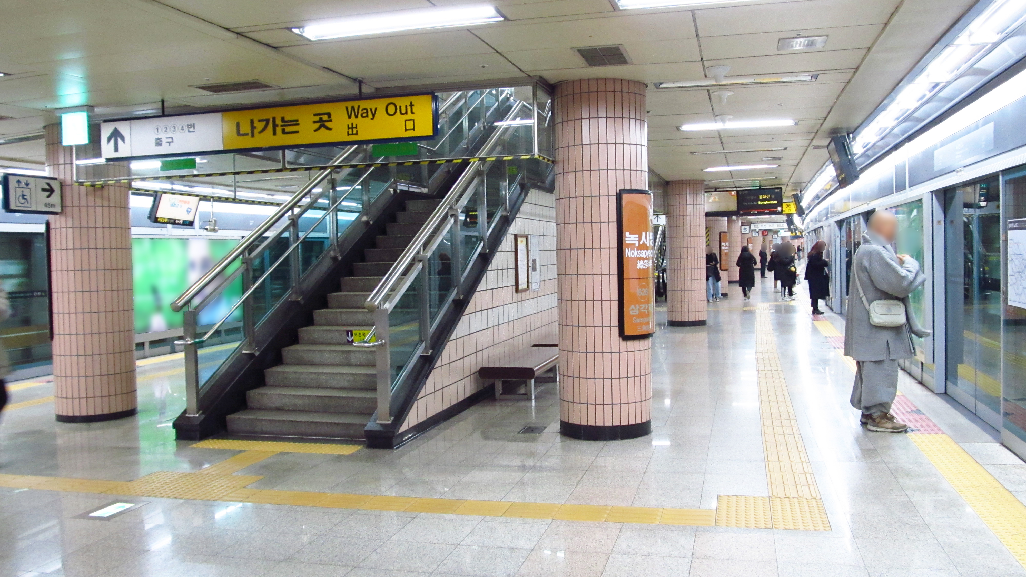 The platform at Noksapyeong Station on Seoul Subway Line 6 in Yongsan-gu, Seoul, Republic of Korea(South Korea)